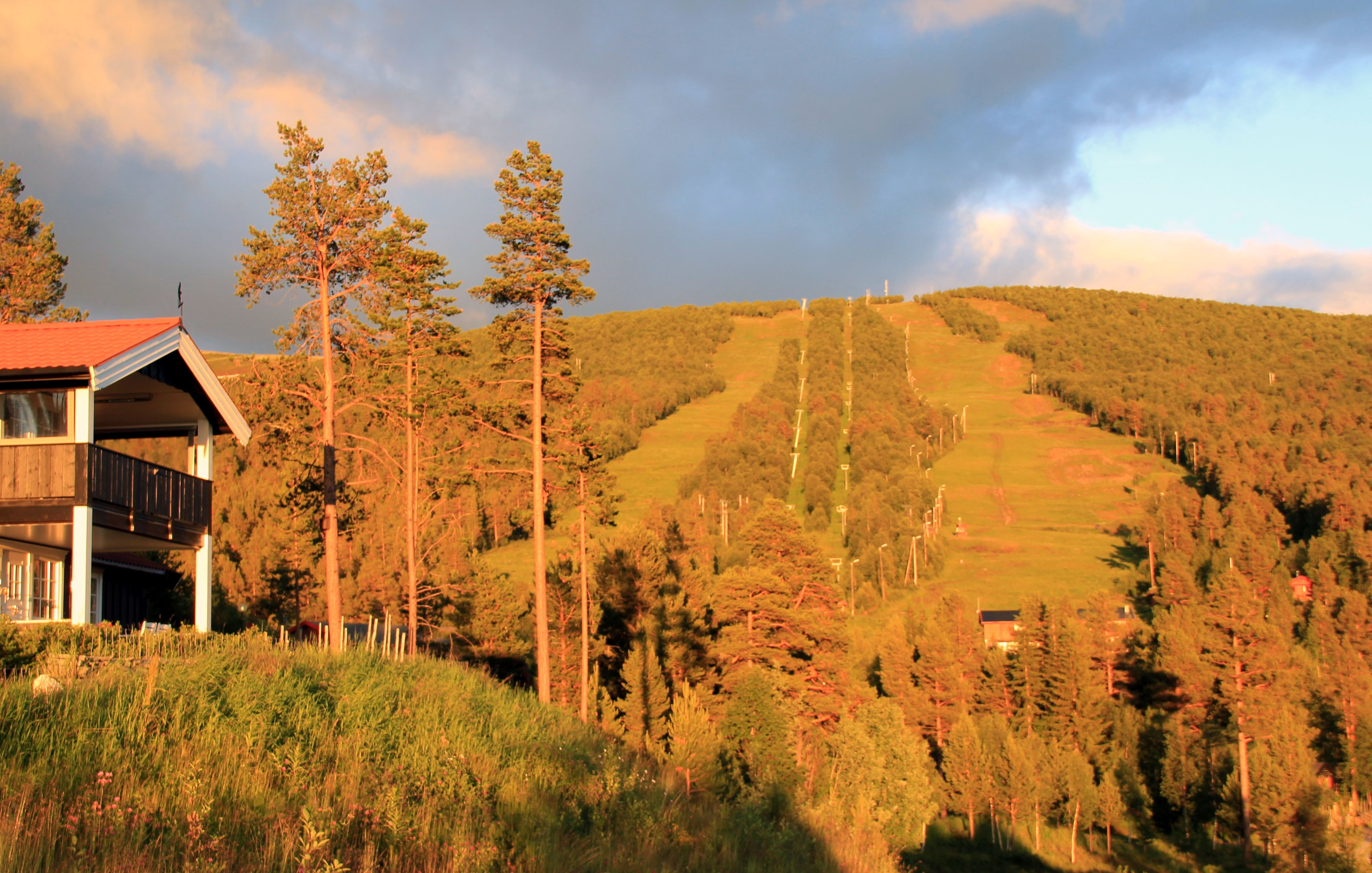 Dombås skiheiser / skilifts at sunset - July 2012